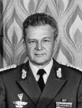 Military committee of the Air Force/Air Defence’s Command of the GDR National People’s Army in 1986.